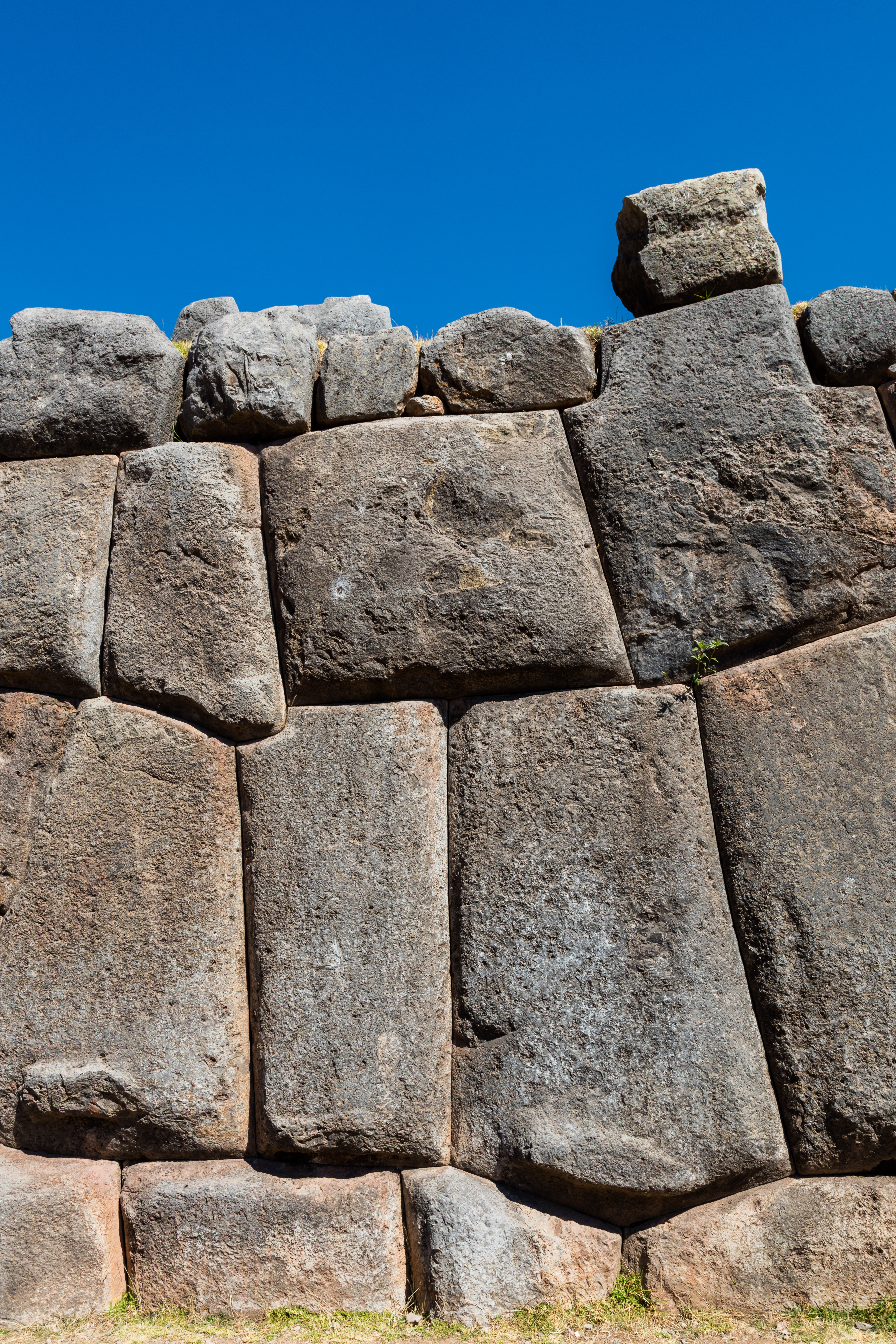 Sacsayhuamán, Cusco, Peru